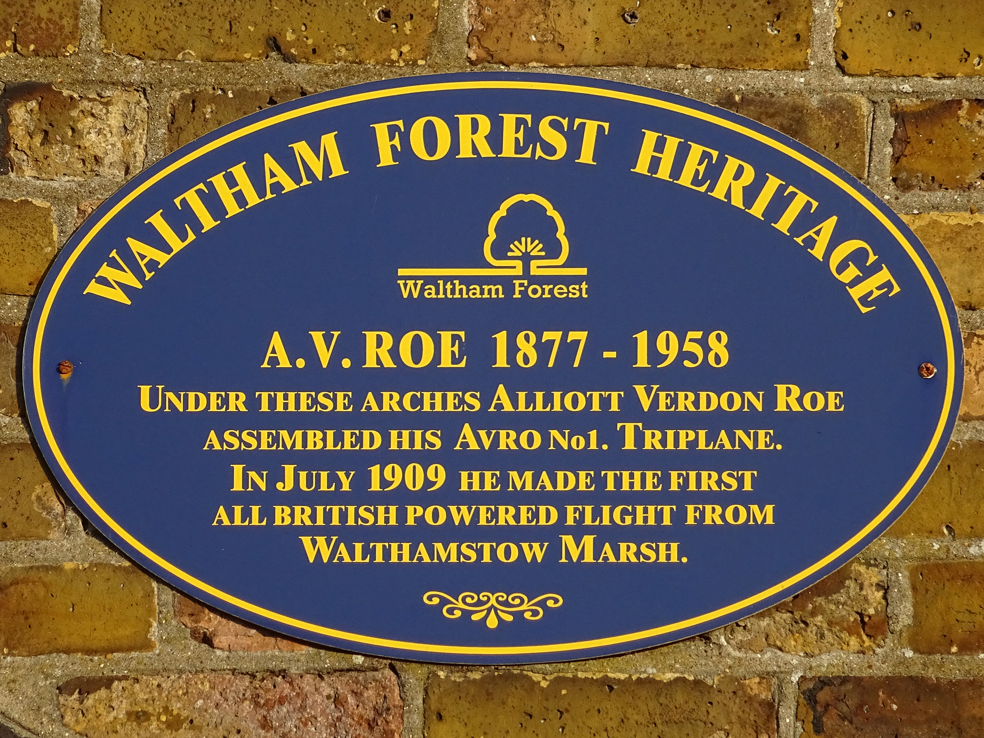 Blue plaque erected by Waltham Forest Council as part of the Waltham Forest Heritage scheme at Walthamstow Marsh Railway Viaduct (down side) London E17